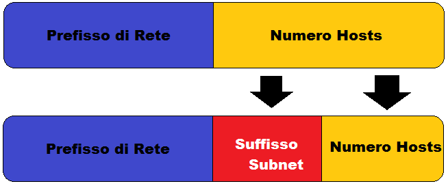 Shows the division of the bit hosts in two parts: the suffix of subnet mask and the rest of the bit hosts.